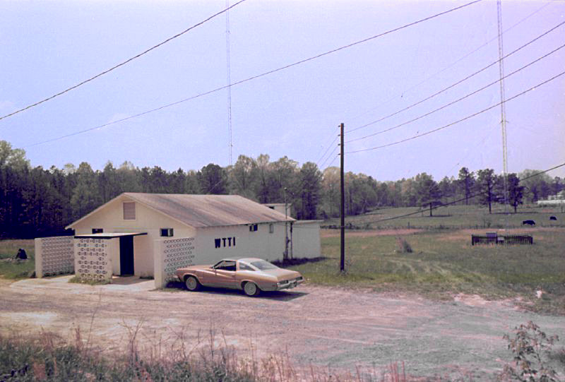 The WTTI (radio station) transmitter building near Westside, Georgia, USA in the 1970s. It was a Top 40 format at that time.